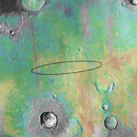 This image shows the abundance and location of the mineral grey hematite at the Opportunity rover's landing site, Meridiani Planum, Mars. Grey hematite is an iron oxide mineral that typically forms in the presence of liquid water.